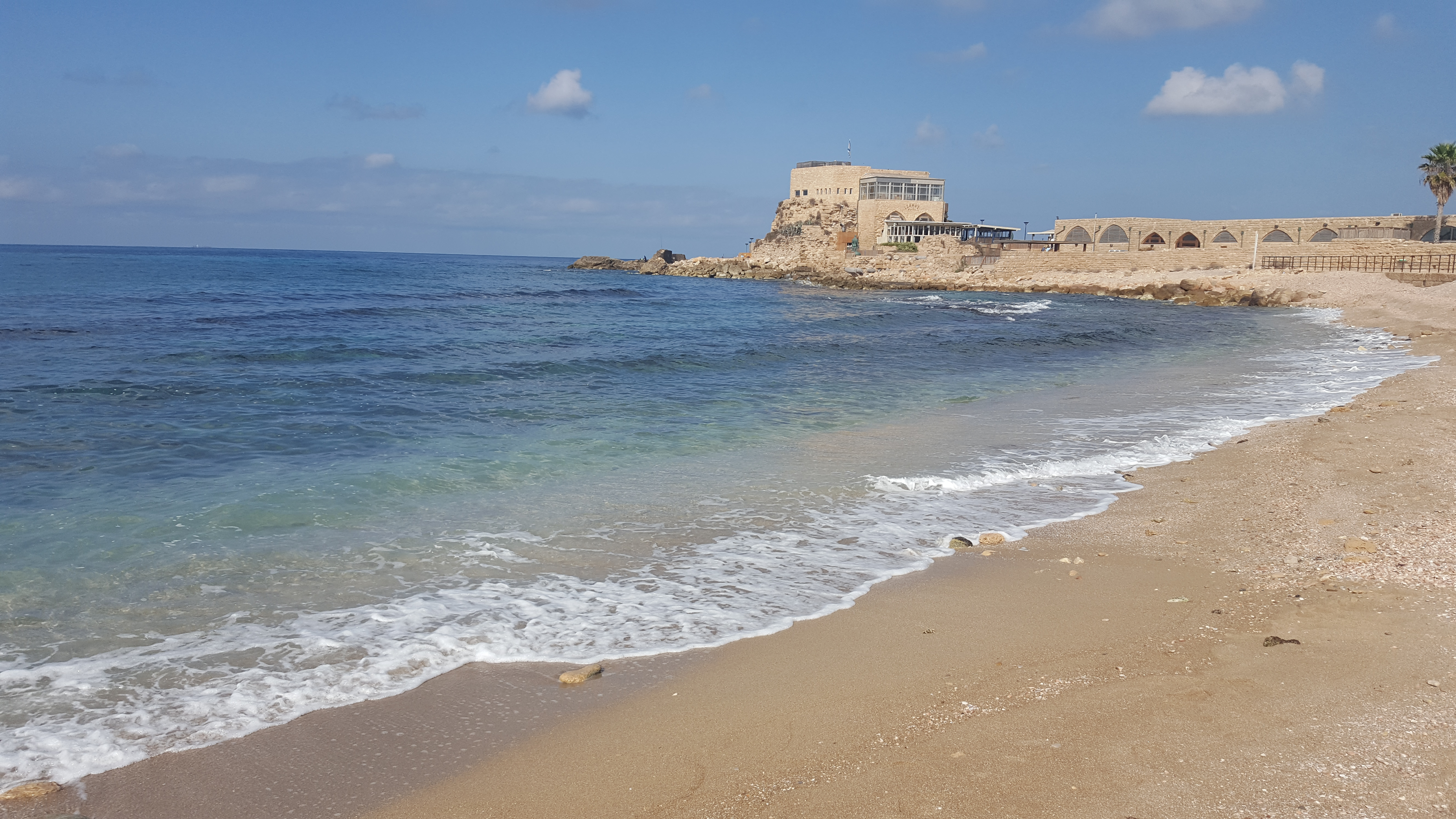 Ancient port in Caesarea.